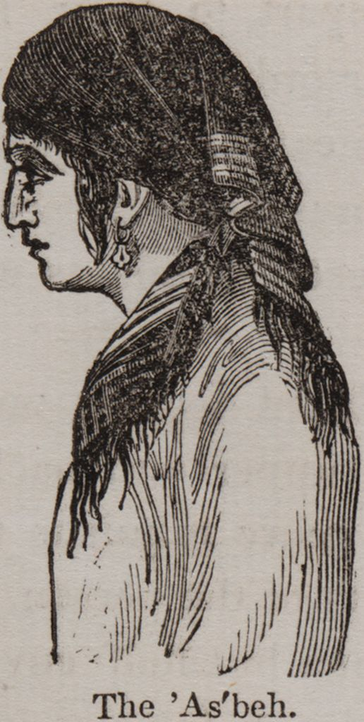 A woman's side face potrait with a scarf around her head. Engraving (prints).